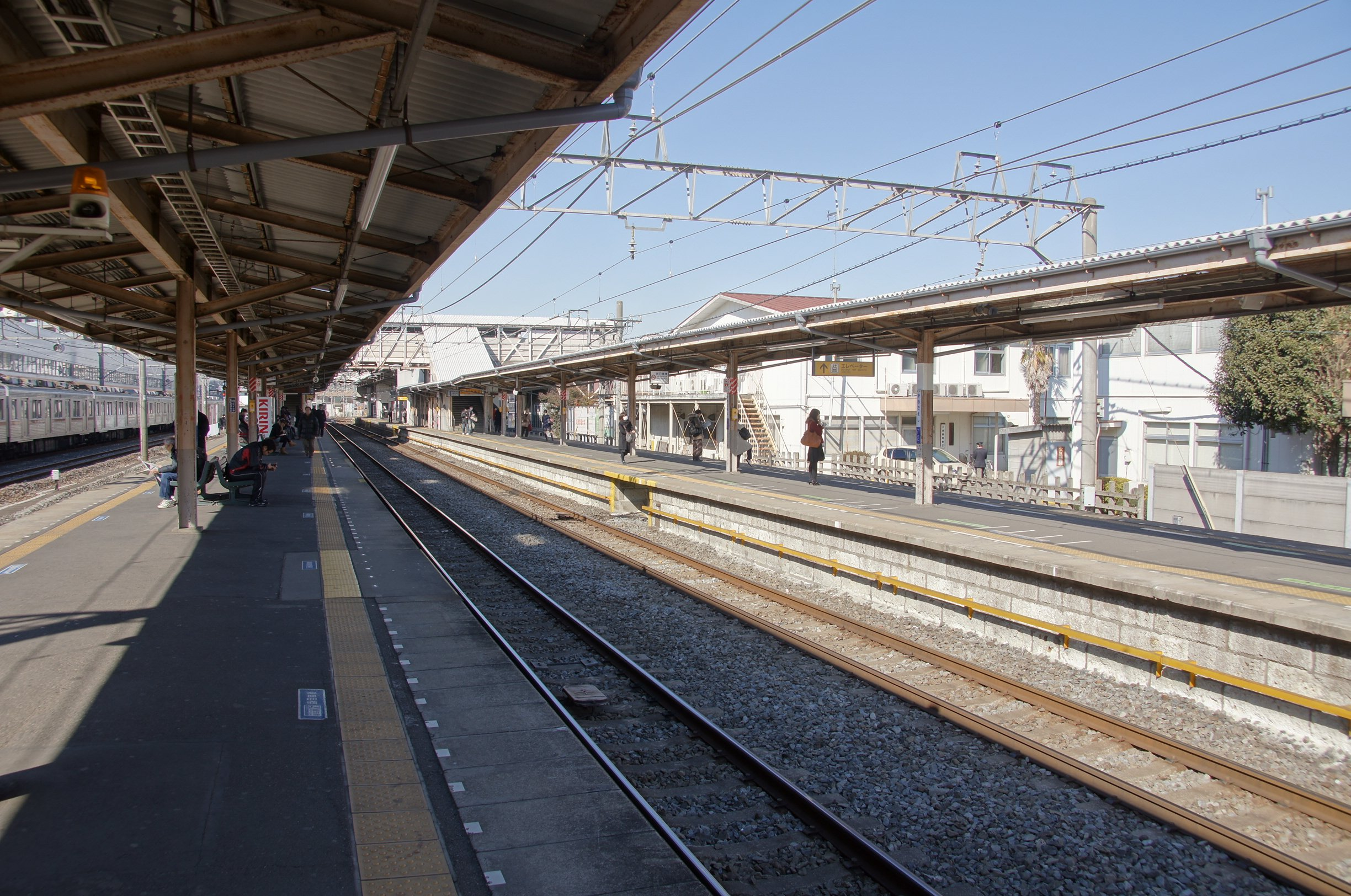 View from up end of platforms 1 and 2 looking toward Kasumigaseki at Kawagoeshi Station on the Tobu Tojo Line